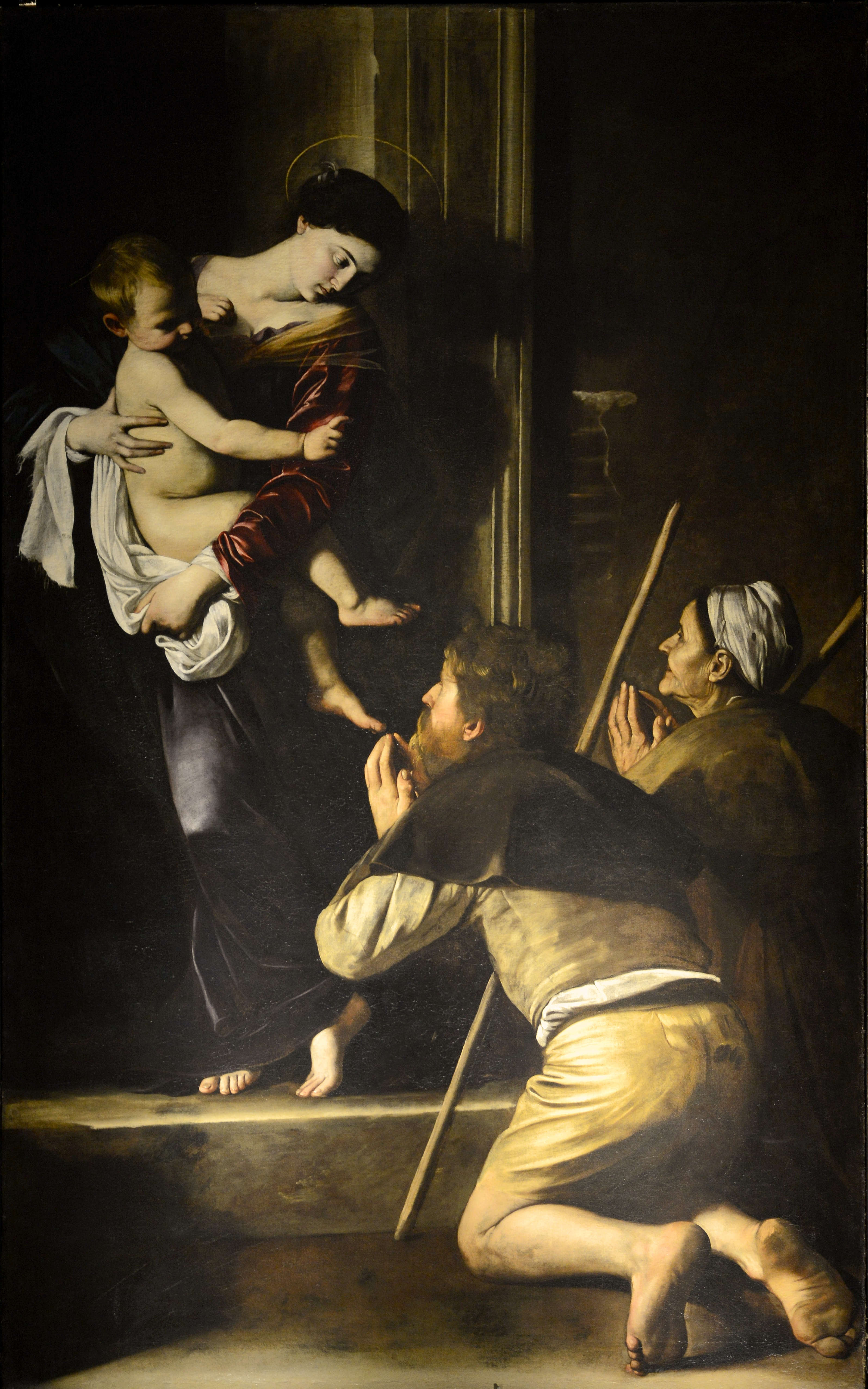 Madonna dei Pellegrini, by Caravaggio. Chirch of Sant'Agostino, Rome